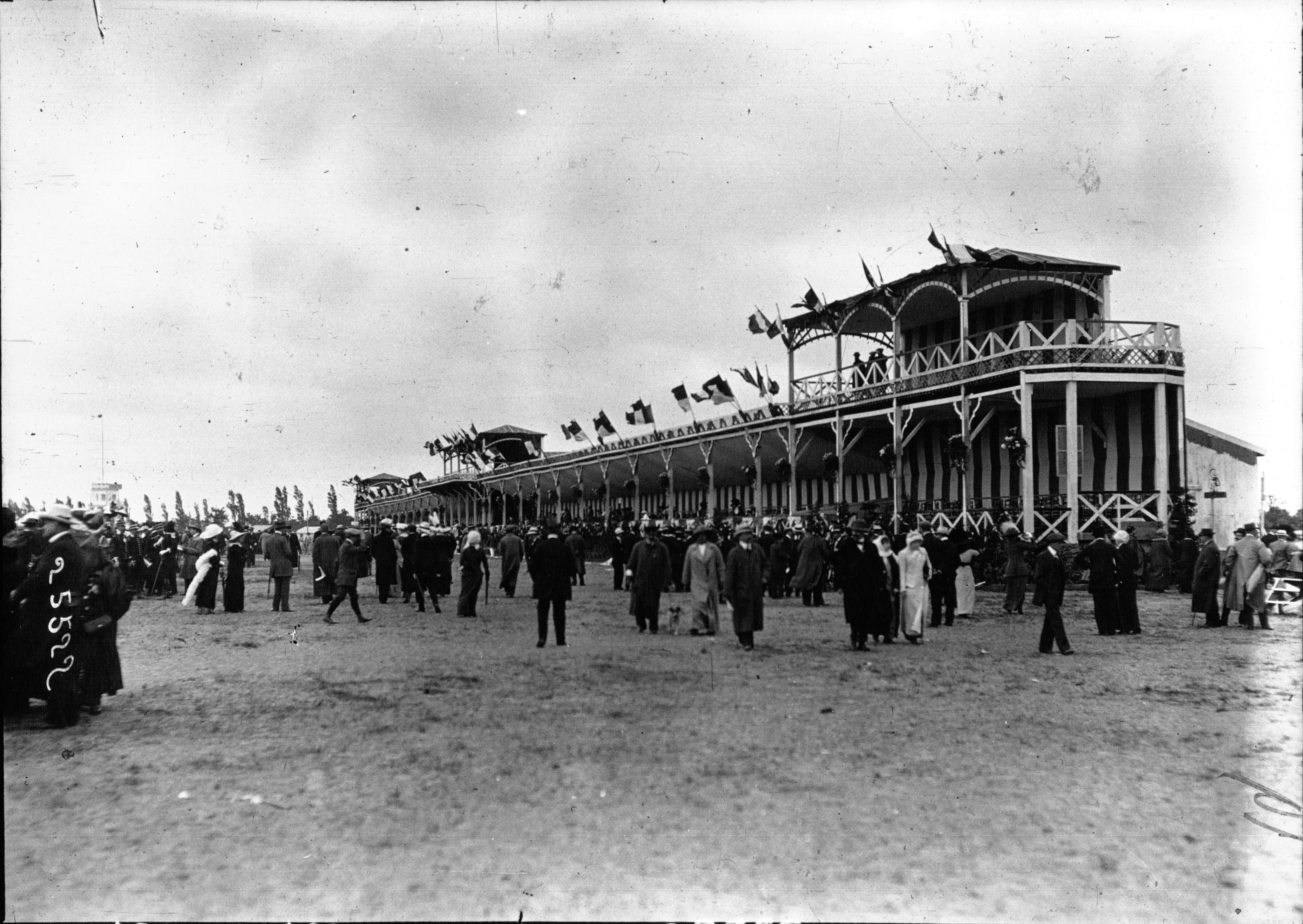 Grandstands at the 1912 French Grand Prix at Dieppe.